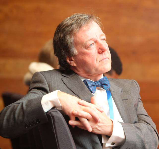 Dr Michael Dixon